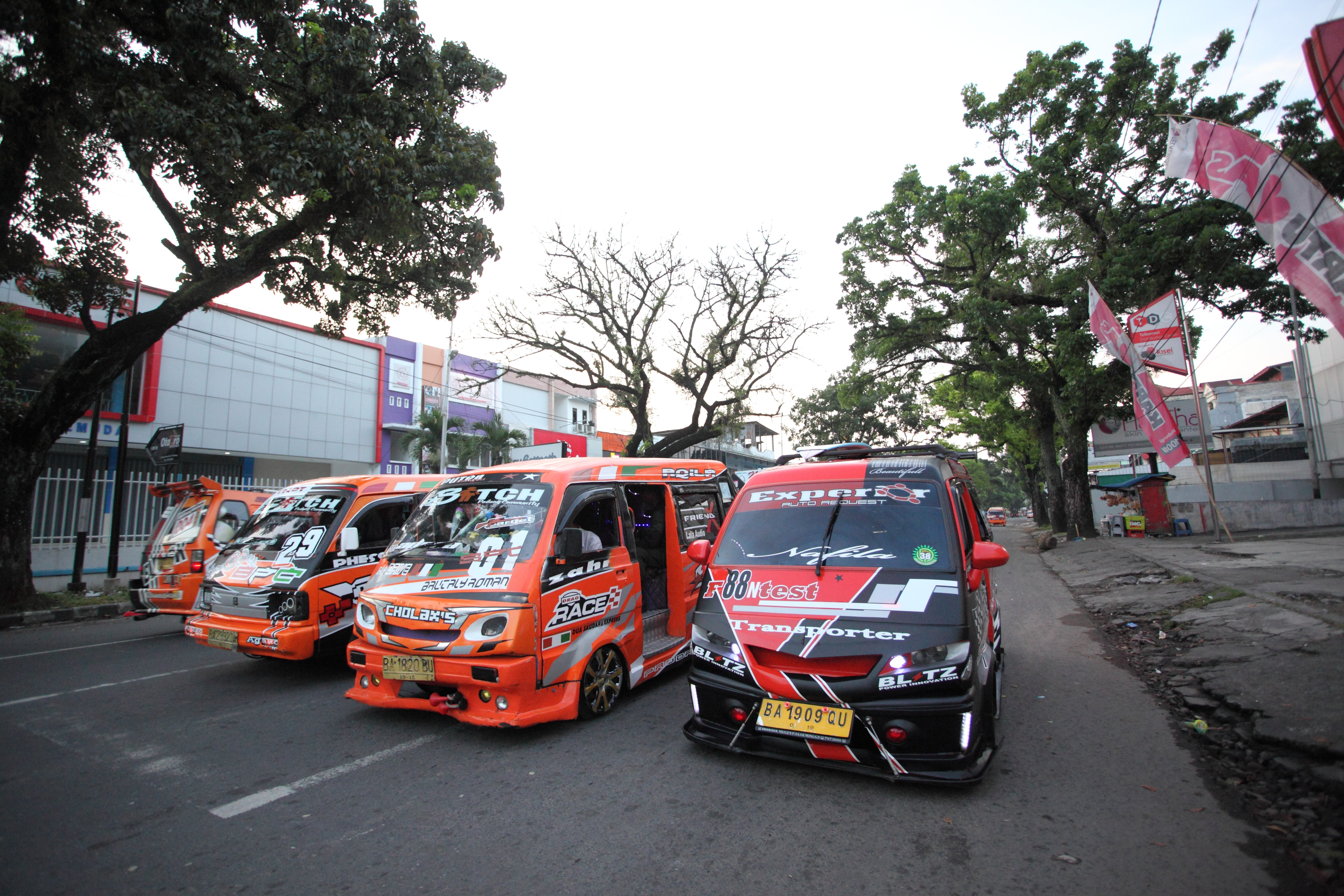 Padang, Public Transport, Indonesia.